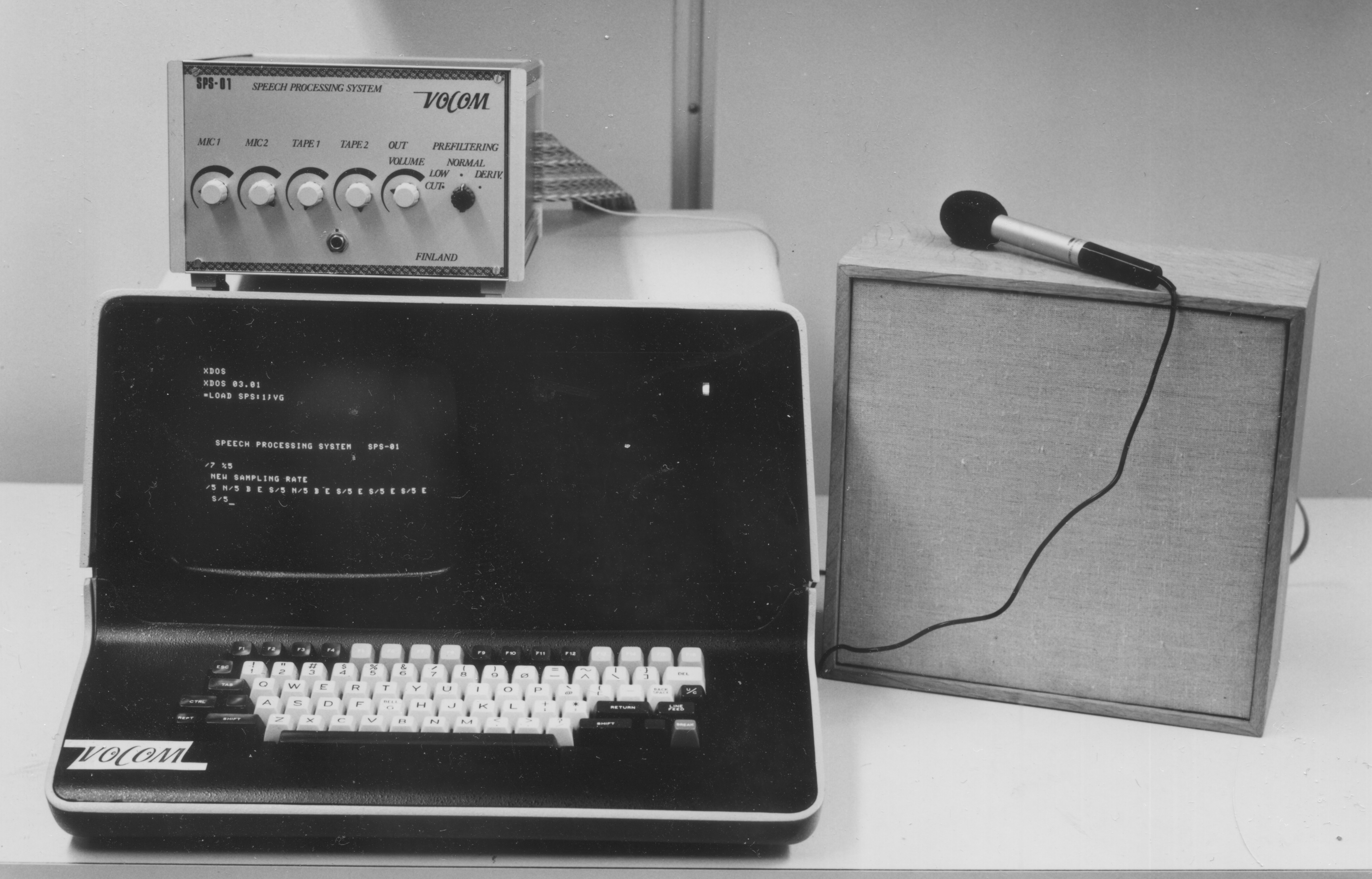 Speech Processing System SPS-01 (1979)